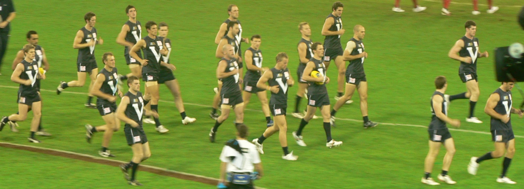 Victorian AFL team, the Big V runs out in AFL Hall of Fame Tribute Match